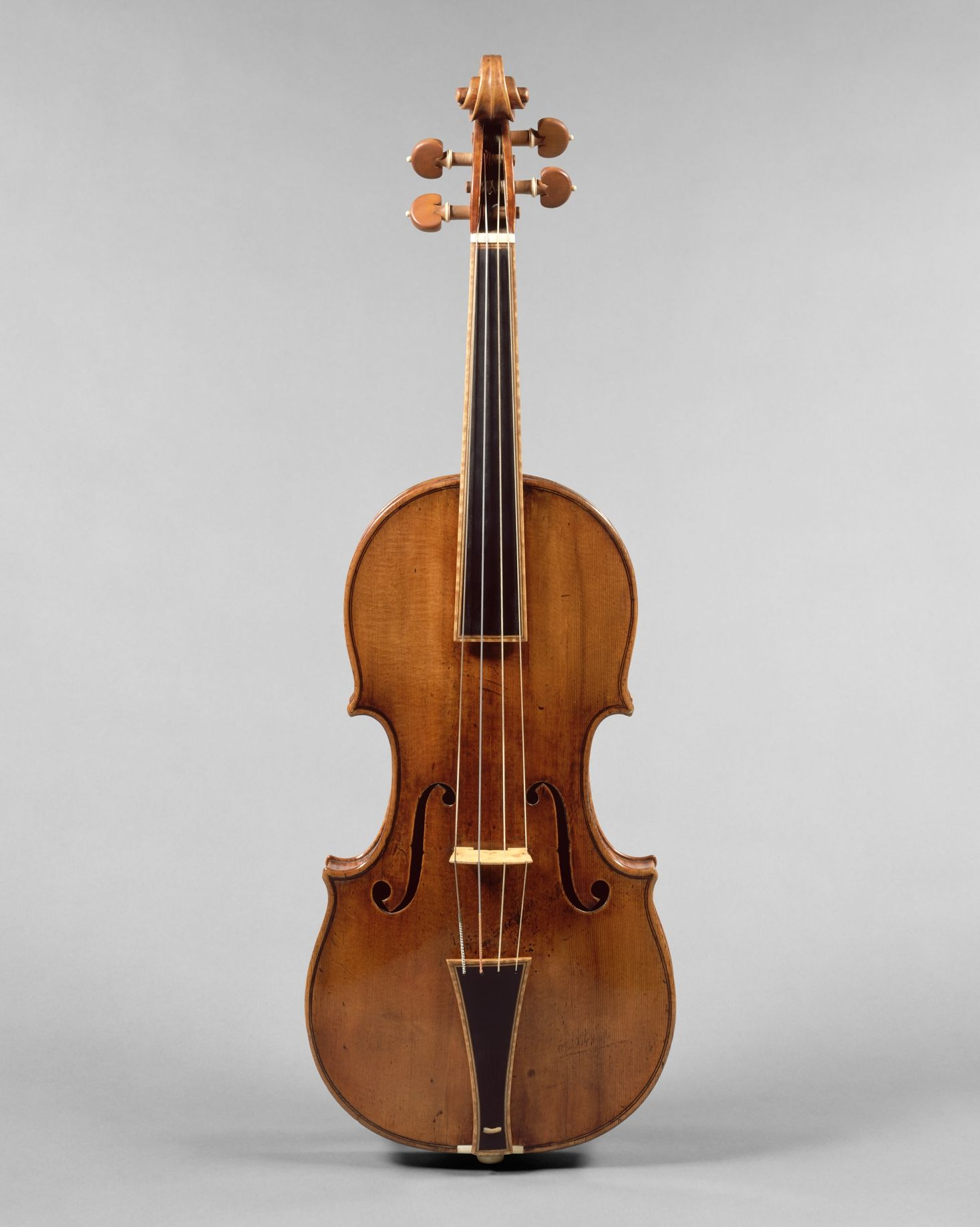 Italian (Cremona); Violin; Chordophone-Lute-bowed-unfretted